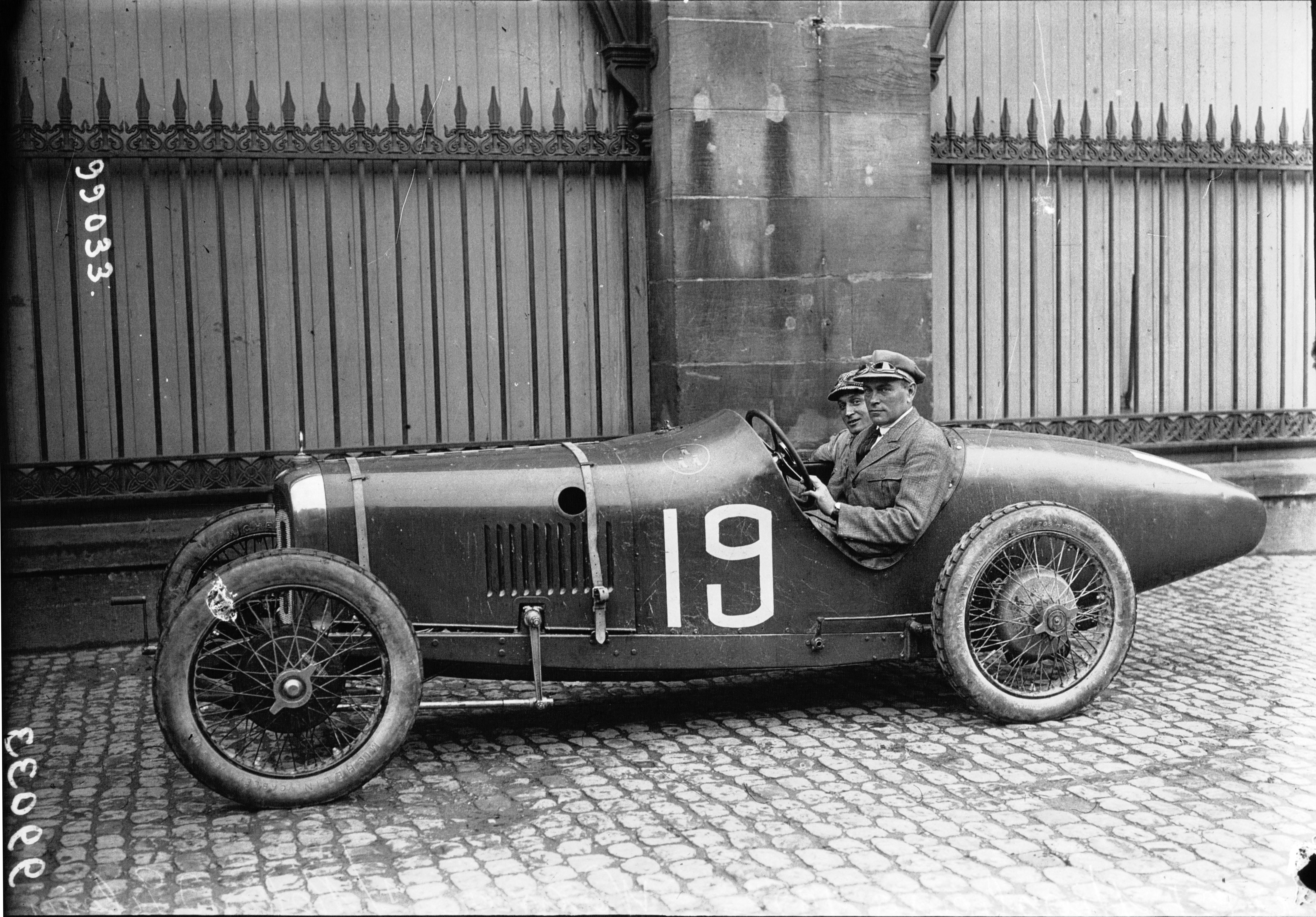 Louis Wagner at the 1922 French Grand Prix